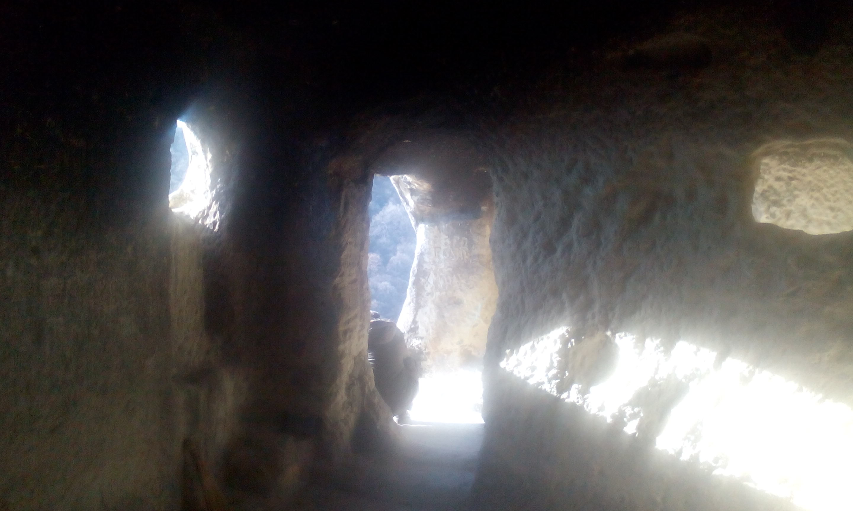 Khan Krum Rock-hewn